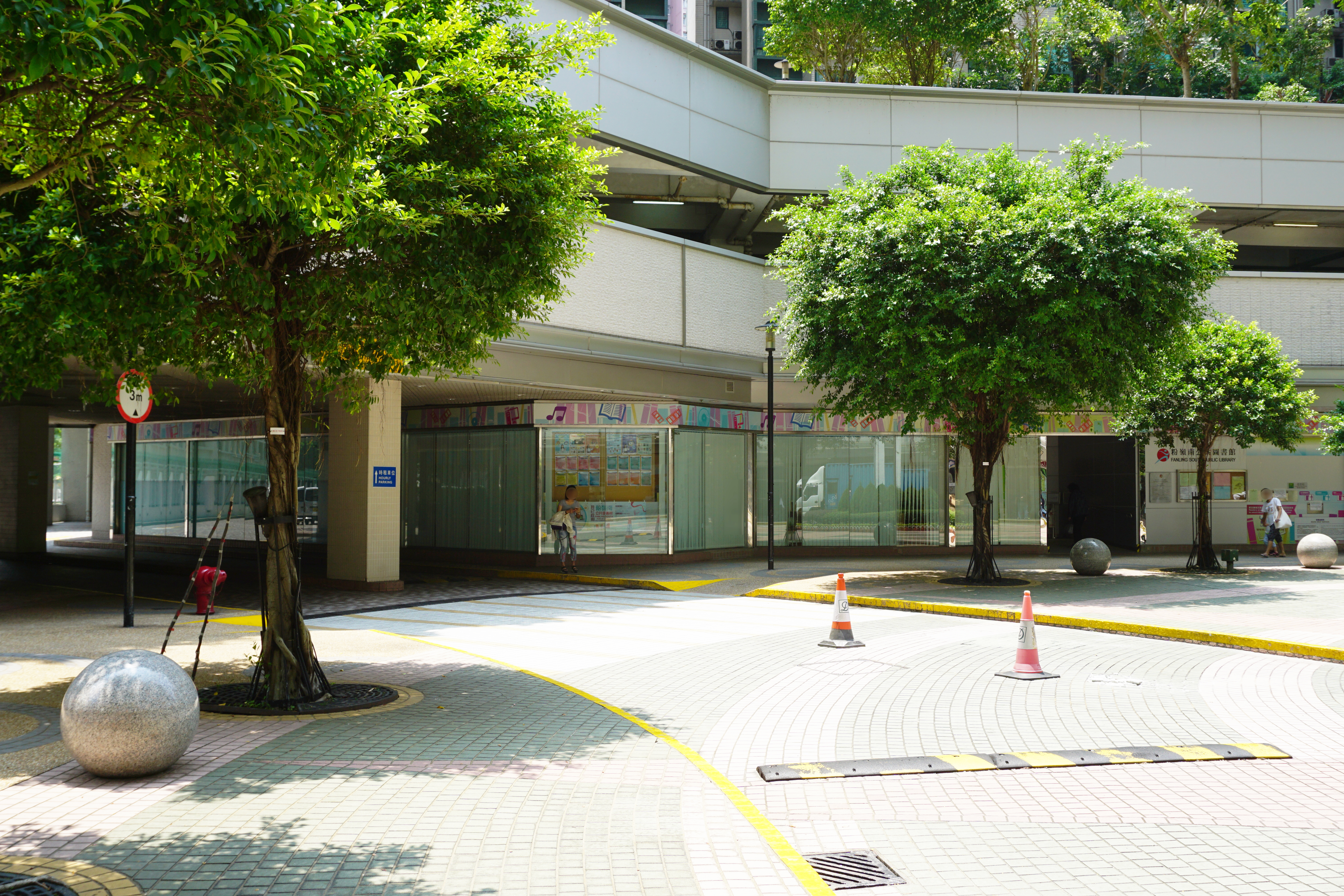 Fanling South Public Library in Fanling, Hong Kong.